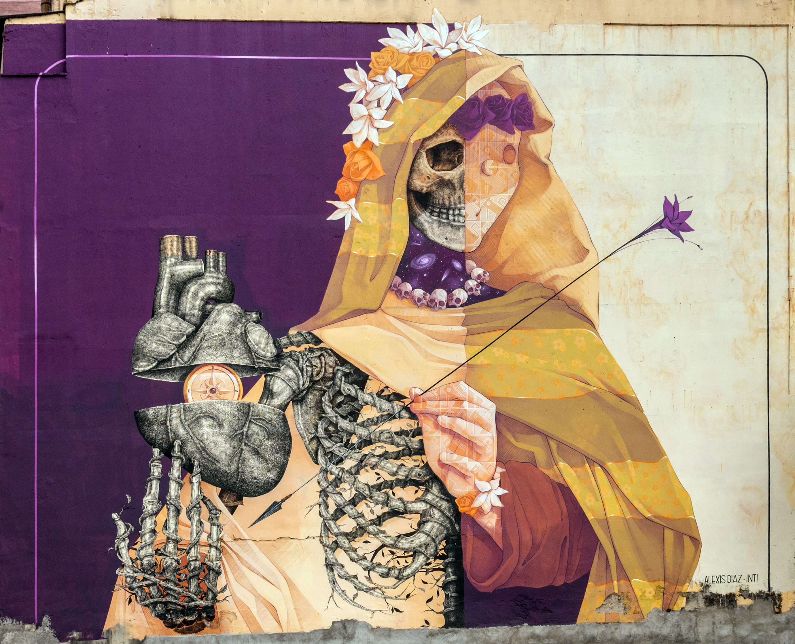 Puerto Rican street artist Alexis Diaz recently teamed up with Chilean artist INTI to create a new mural for O.Bra Festival in Sao Paulo, Brazil. Their mural, which took over 1 week to complete, blends the two artist’s distinct imagery: Diaz’s detailed and crosshatched line work with colorful under layers, and INTI’s subjects inspired by life, death and religion, particularly Christianity. It features a surreal split-image of a skeletal robed woman, crowned with flowers and holding up a mechanical-like heart. She is a familiar figure in INTI’s other works, who uses a warm color palette to paint characters representing his Latin culture. Diaz and INTI’s mural was painted just in time for the Brazilian public holiday of Day of the Dead, which was celebrated on November 2nd 2015. Similar to other Day of the Dead celebrations, people go to cemeteries and churches with flowers and candles, and offer prayers. The celebration is intended as a positive honoring of the dead, echoed in the spirit of Diaz and INTI’s piece. At his Facebook, Diaz wrote: ” [I] have the pleasure to enjoy every second of the process along with a great friend, and see the end result of something that was born as natural and fluid, it fills the heart! Very fortunate to have the opportunity to express what I think and feel through art and be able to get it into a wall and more in a big city like Sao Paulo!” [1]